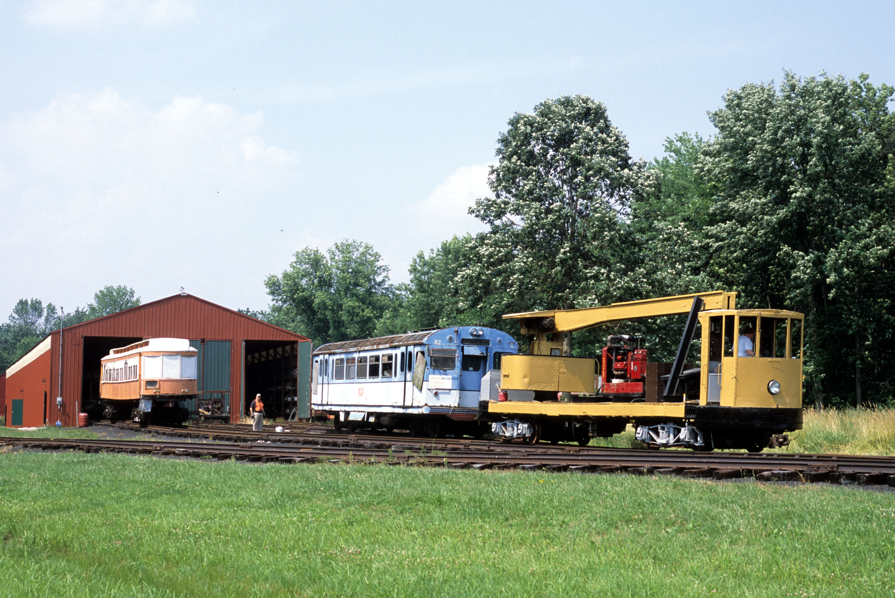 Cleveland Railway 0711 switching at the museum.